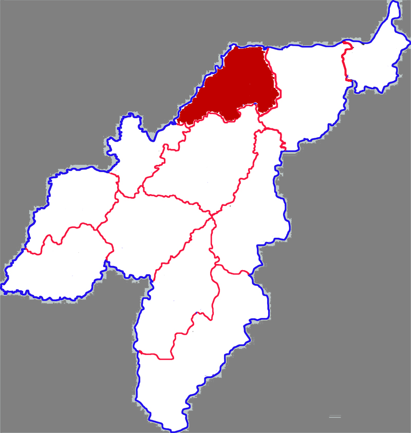 Location of Ningjin county in Dezhou City, China